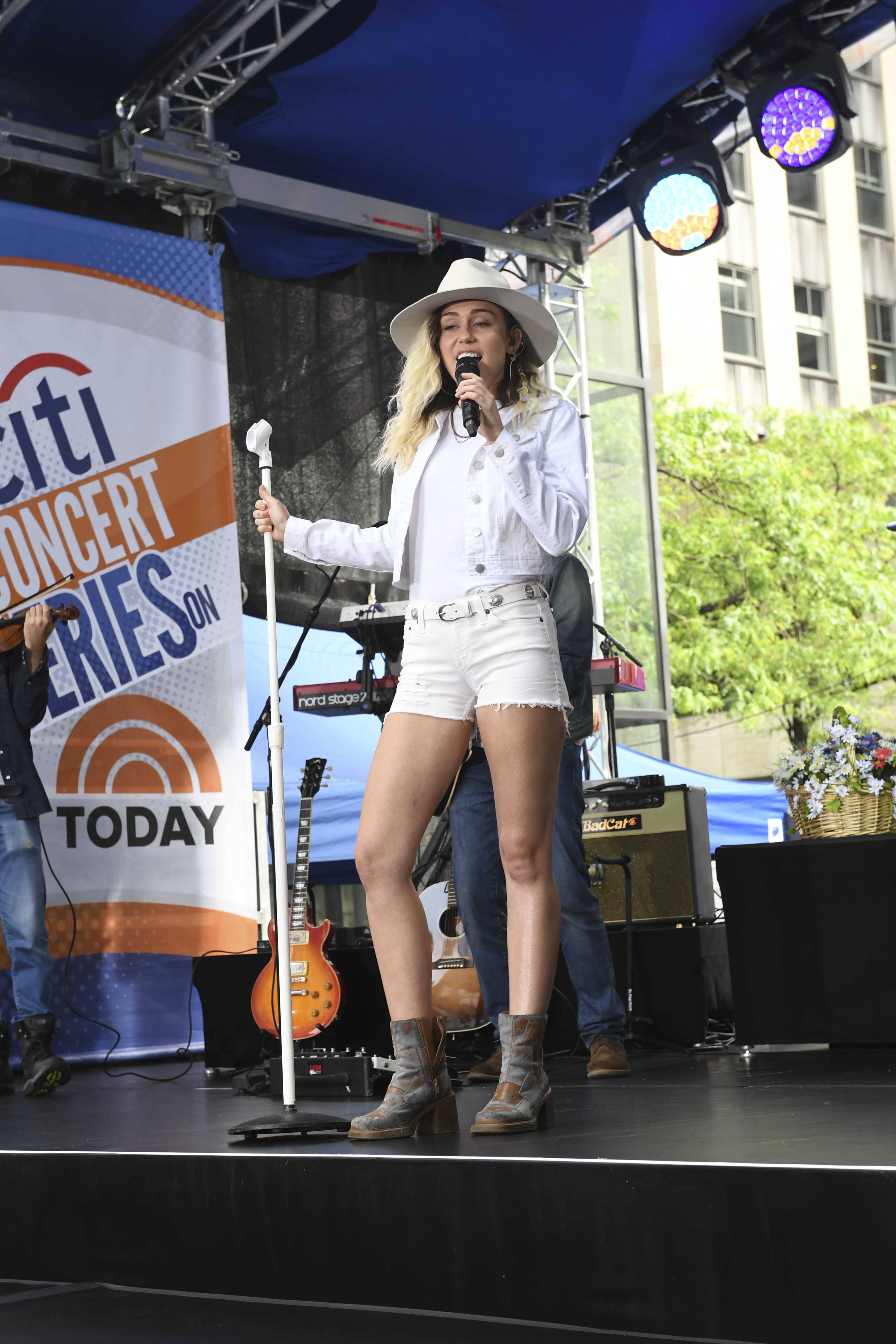 170526-N-TK177-213NEW YORK (May 26, 2017) – Miley Cyrus performs on the NBC Today Show for 2017 Fleet Week New York. FWNY, now in is 29th year, is the city’s time honored celebration of the sea services. It is an unparalleled opportunity for the citizens of New York and the surrounding tri-state area to meet Sailors, Marines and Coast Guardsmen, as well as witness firsthand the latest capabilities of today’s maritime services. (U.S. Navy photo by Mass Communication Specialist 1st Class Kristin M. Schuster/Released)